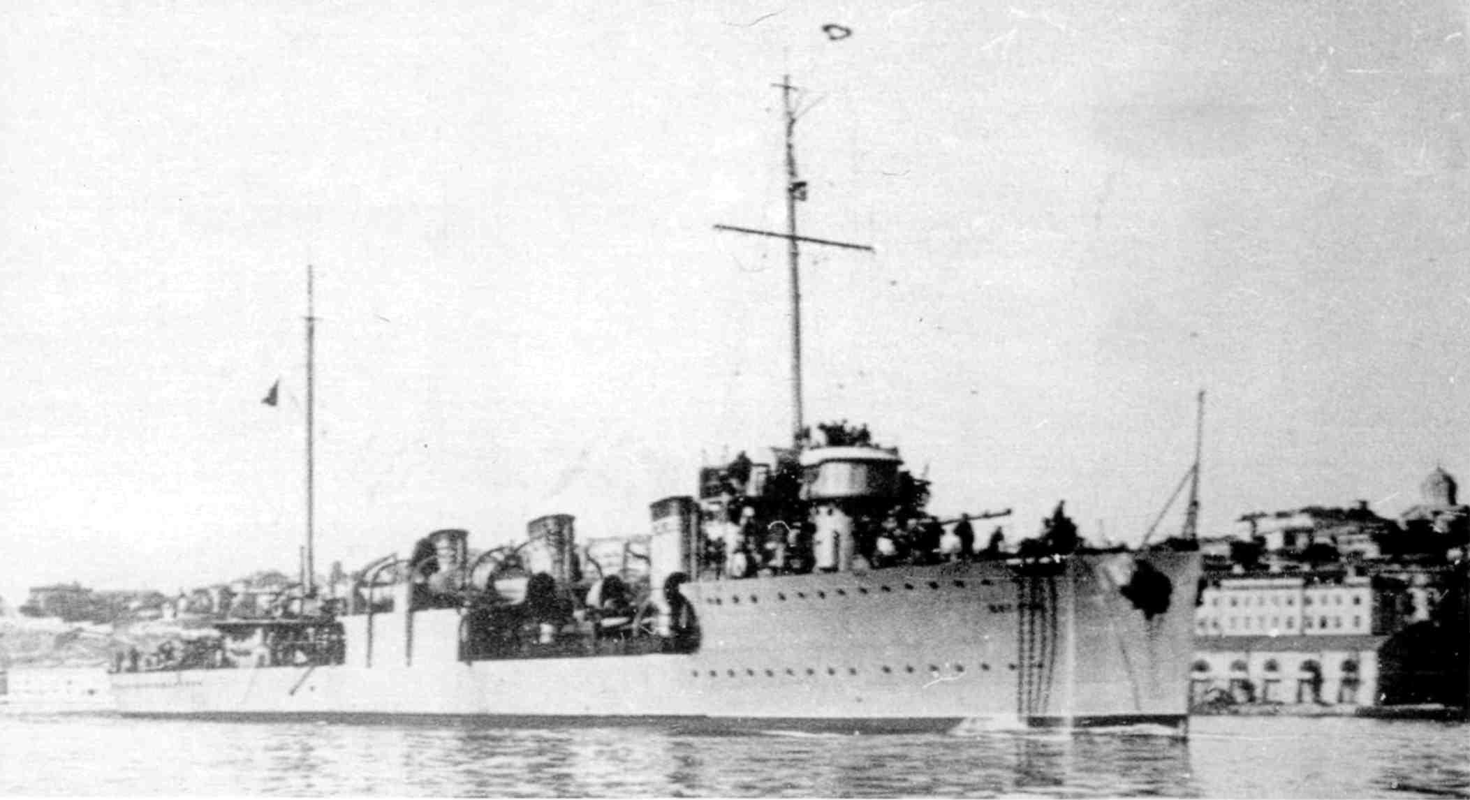 Soviet destroyer Nezamozhnik.